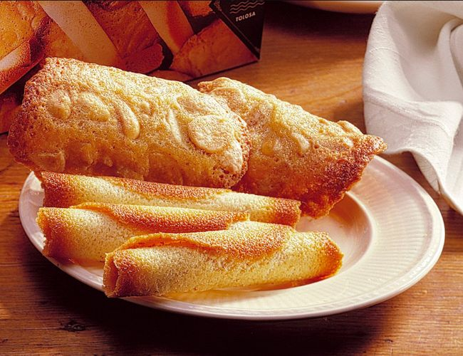 Tejas and Cigarrillos of Tolosa